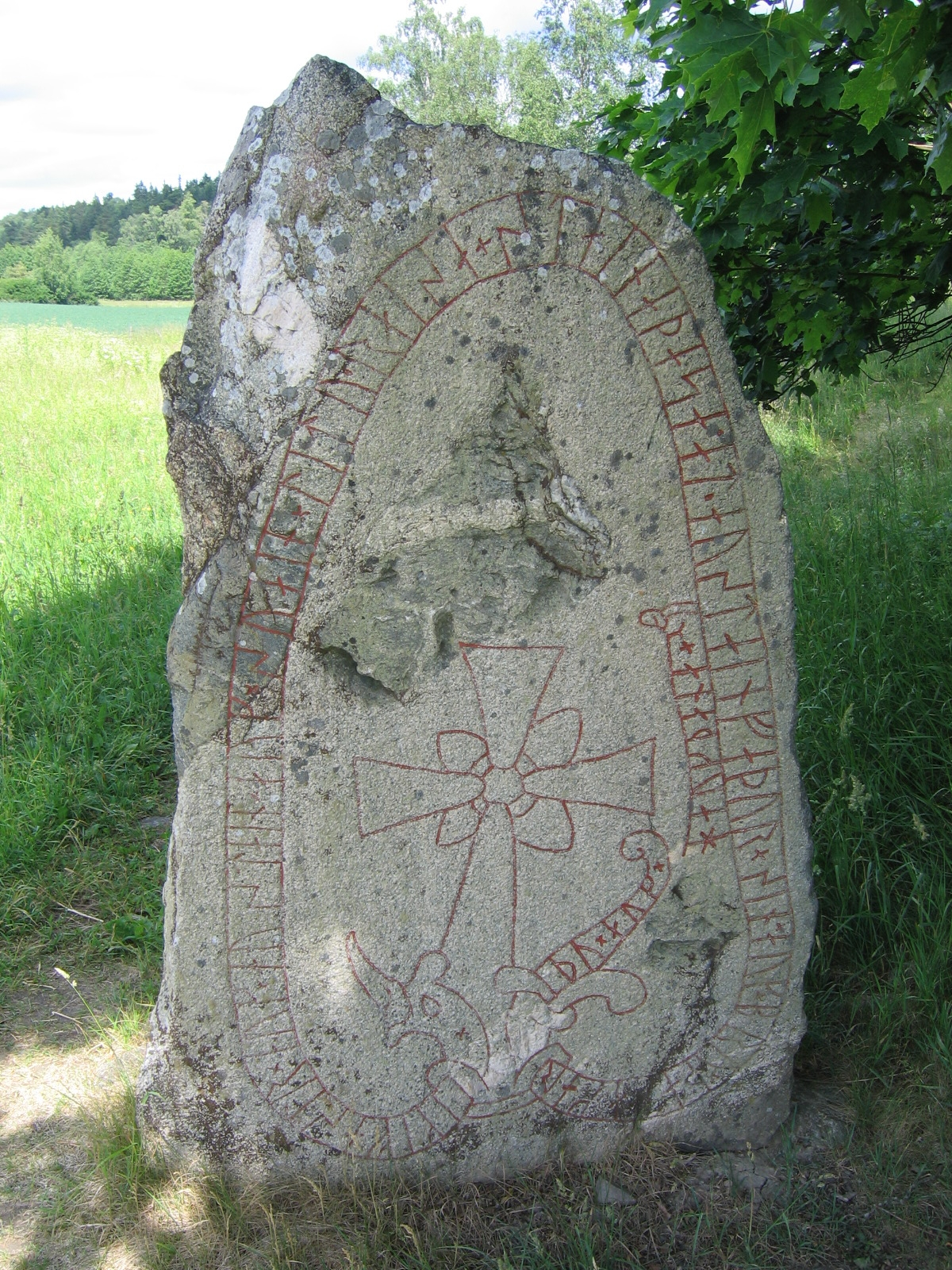 runestone at Broby bro, Uppland, Sweden